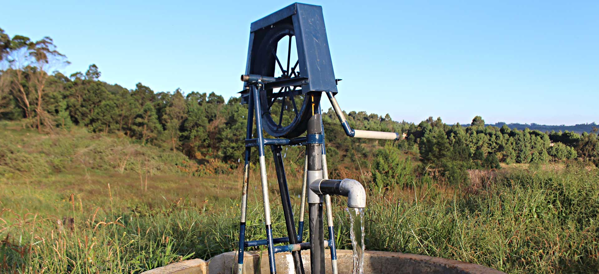 Rope pump model 1